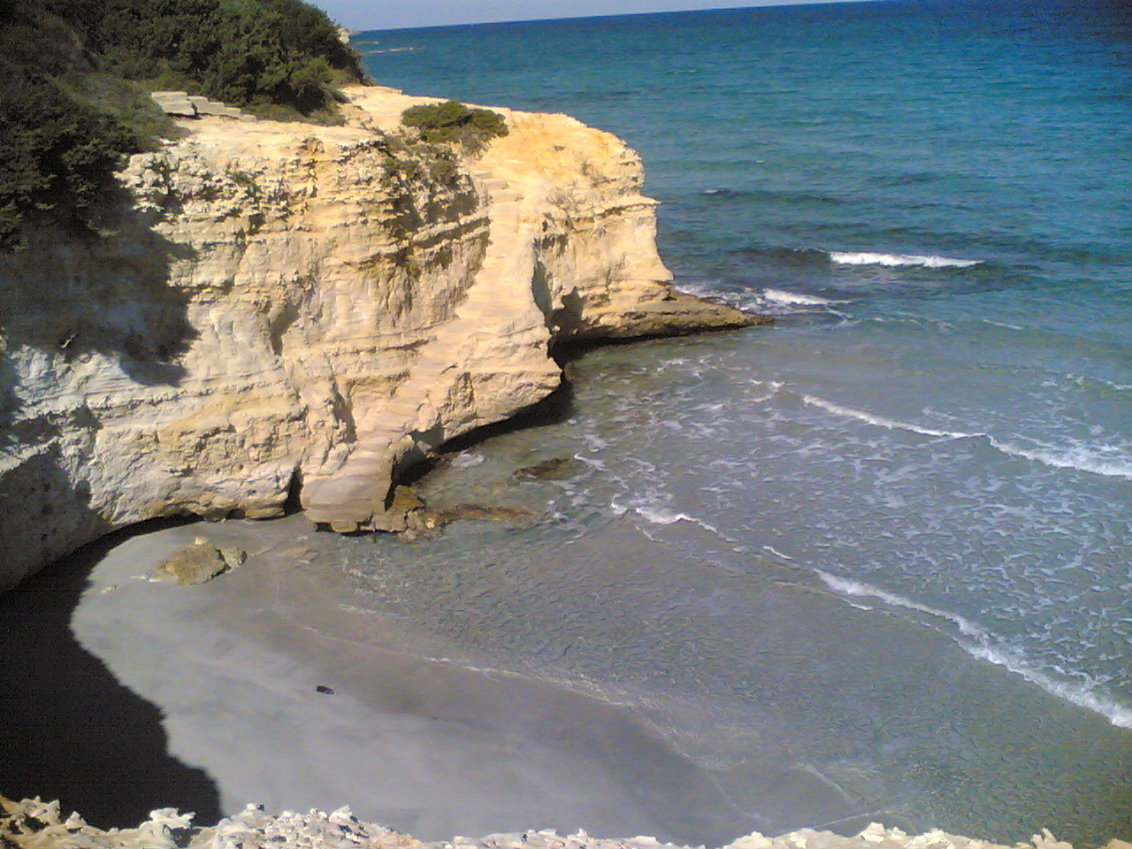 Conca Specchiulla's beach. It is a bathing locality belonging to the district of Otranto, in the Province of Lecce - Apulia (Italy)